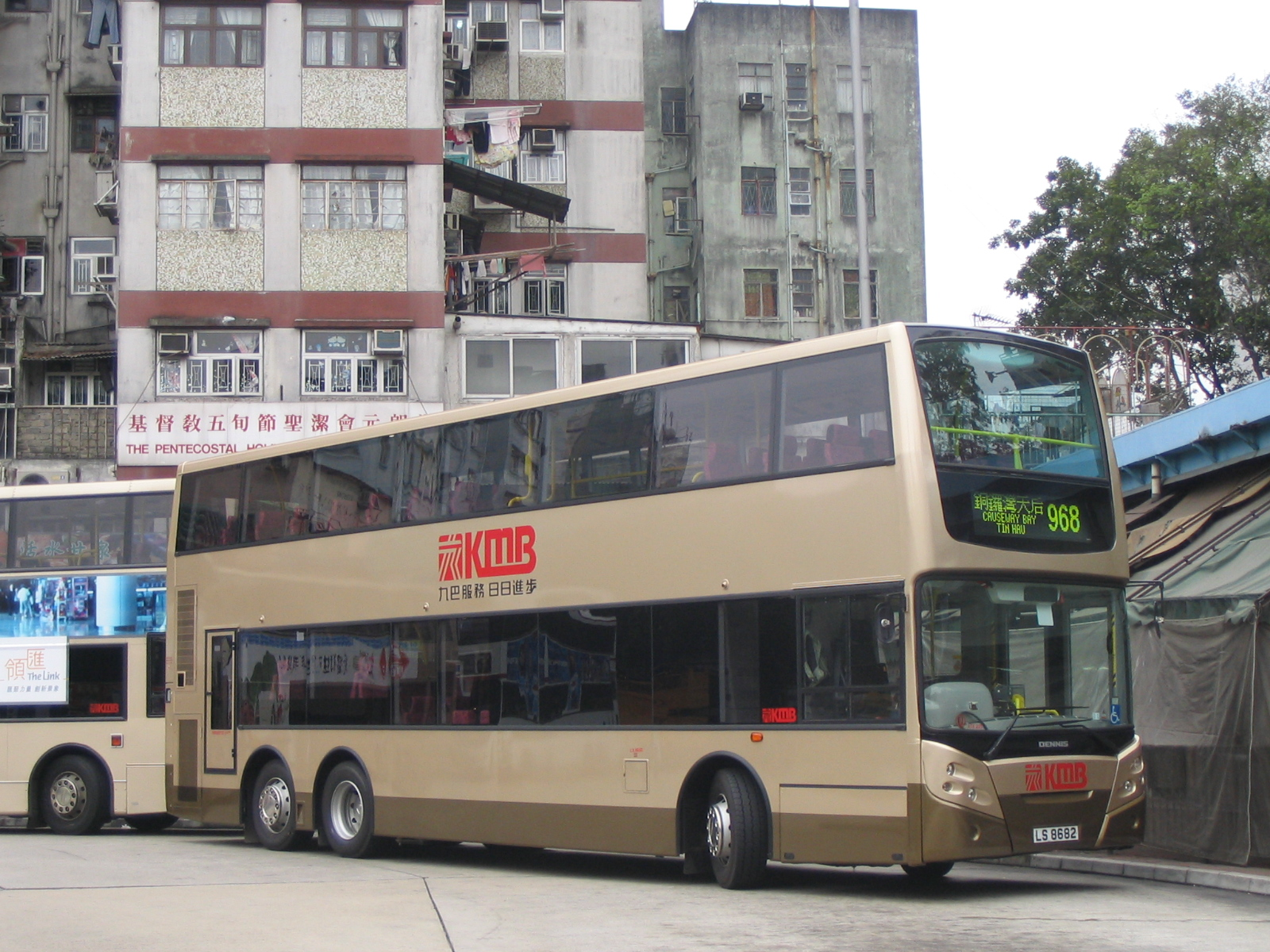 KMB Enviro500 on route 968